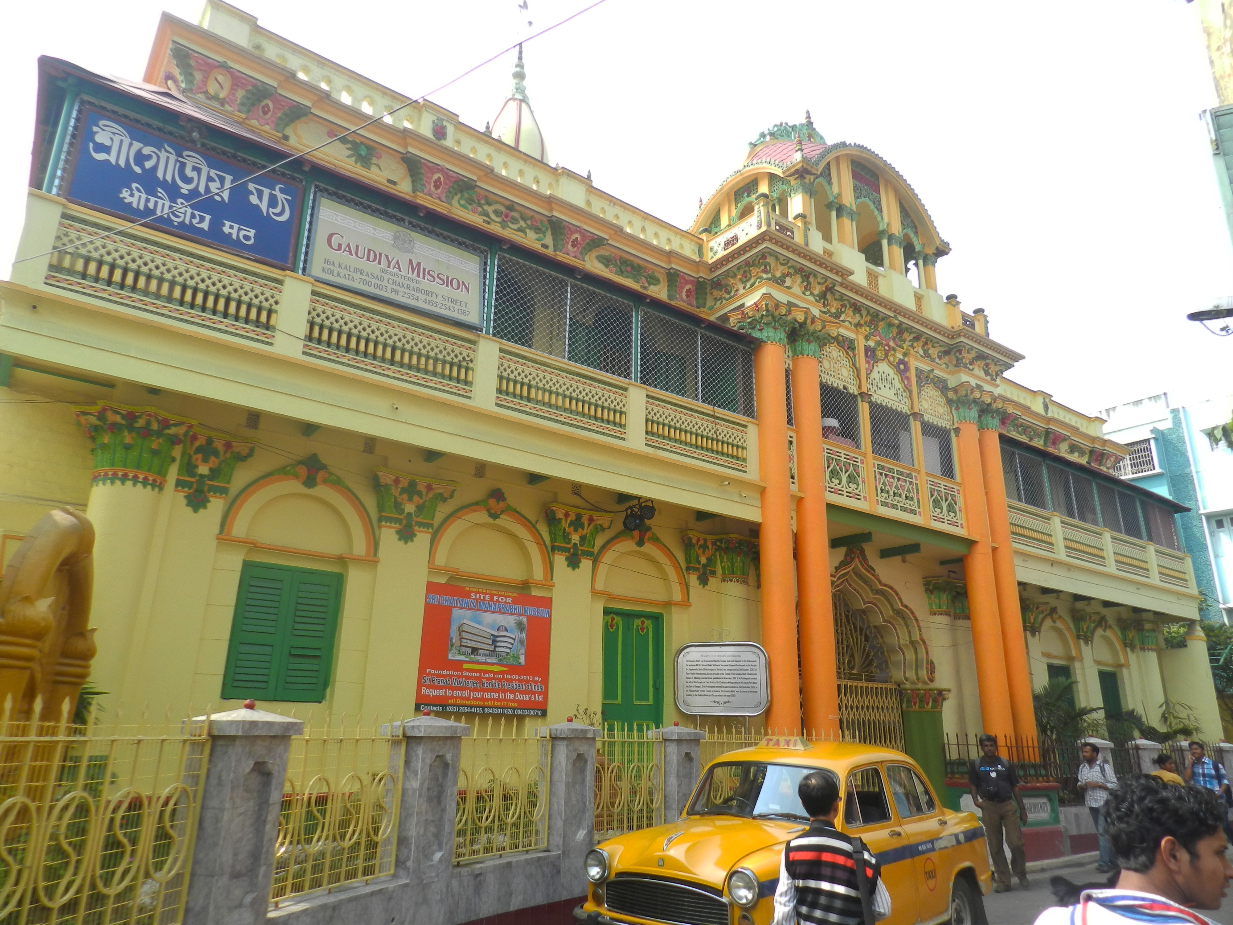 Gaudiya Maath Baghbazar